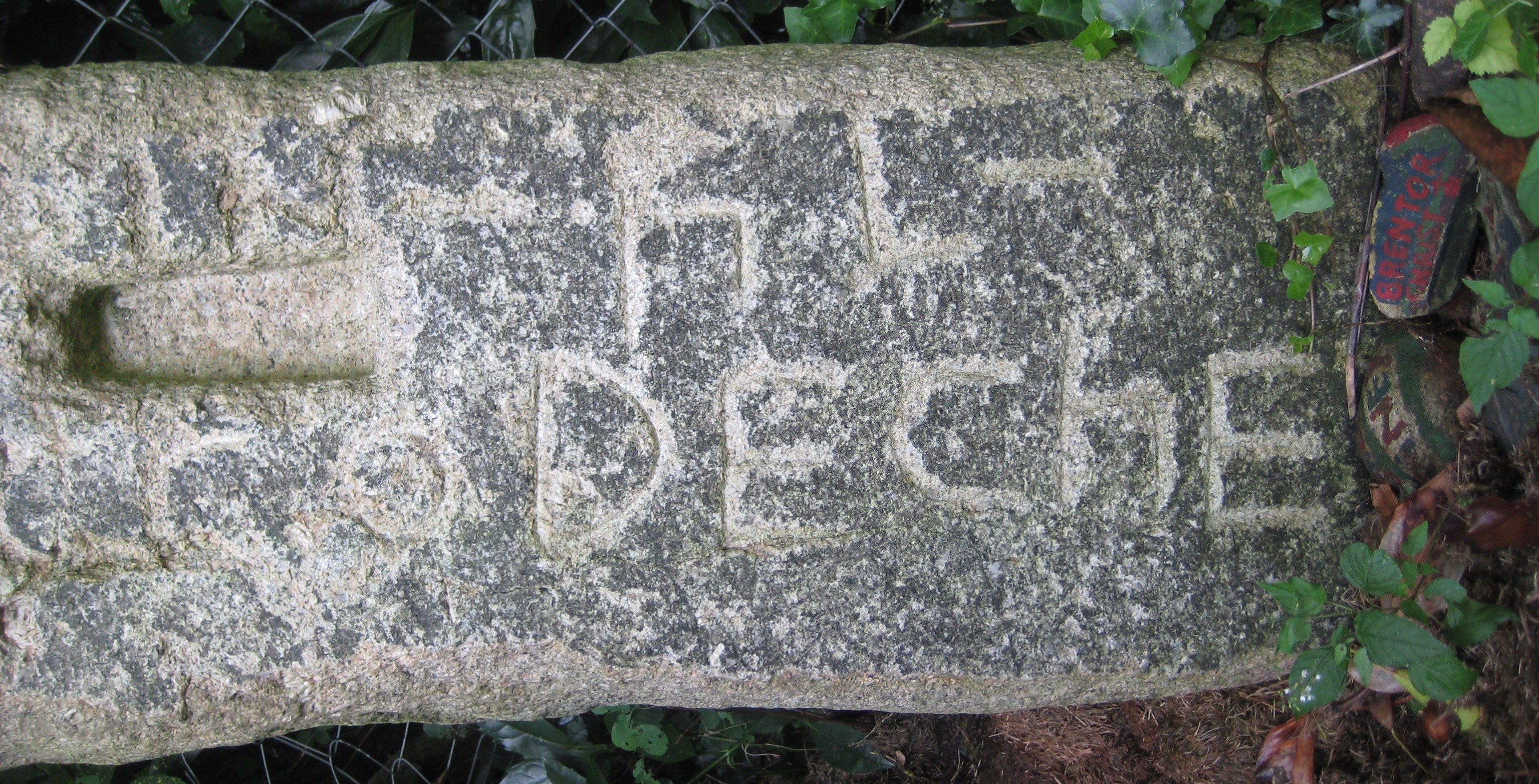 Detail of a 5th to 8th century Celtic inscribed stone at Tavistock vicarage garden (see File:Tavistock stone TVST2-1.JPG). Inscribed SABIN{I} FIL{I} MACCODECHET{I} ("Of Sabinus, son of Maccodechetus"). Detail shows sideways 'I' (U+A7F7 LATIN EPIGRAPHIC LETTER SIDEWAYS I) at the ends of the words Sabini and fili.